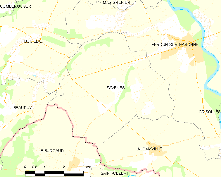 Map of French municipality Savenès